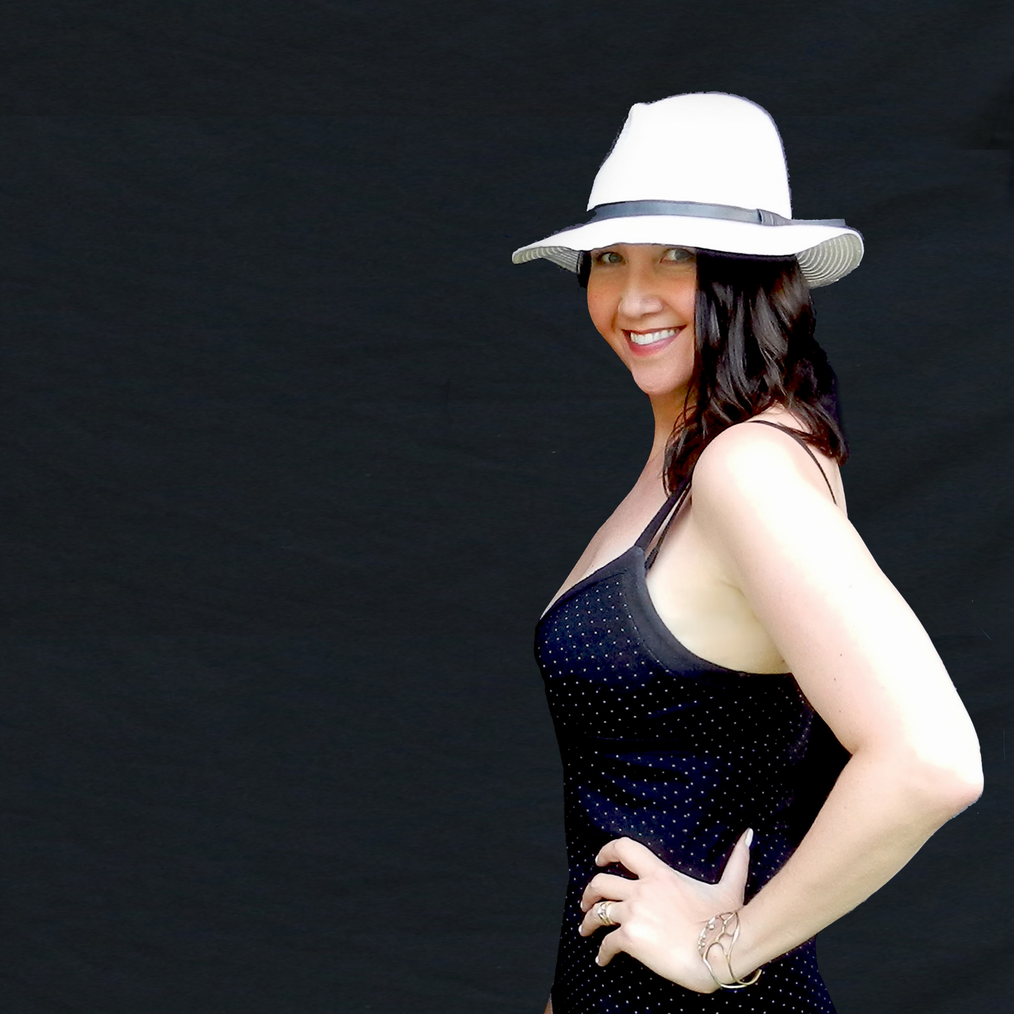 Melody Diachun at "Music in the Park" concert in Trail, British Columbia